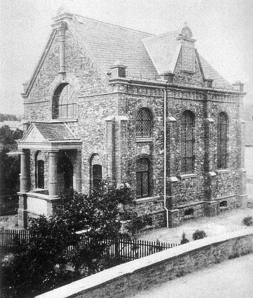 Synagogue of Nastätten in Germany, built in 1904, destroyed in 1939.